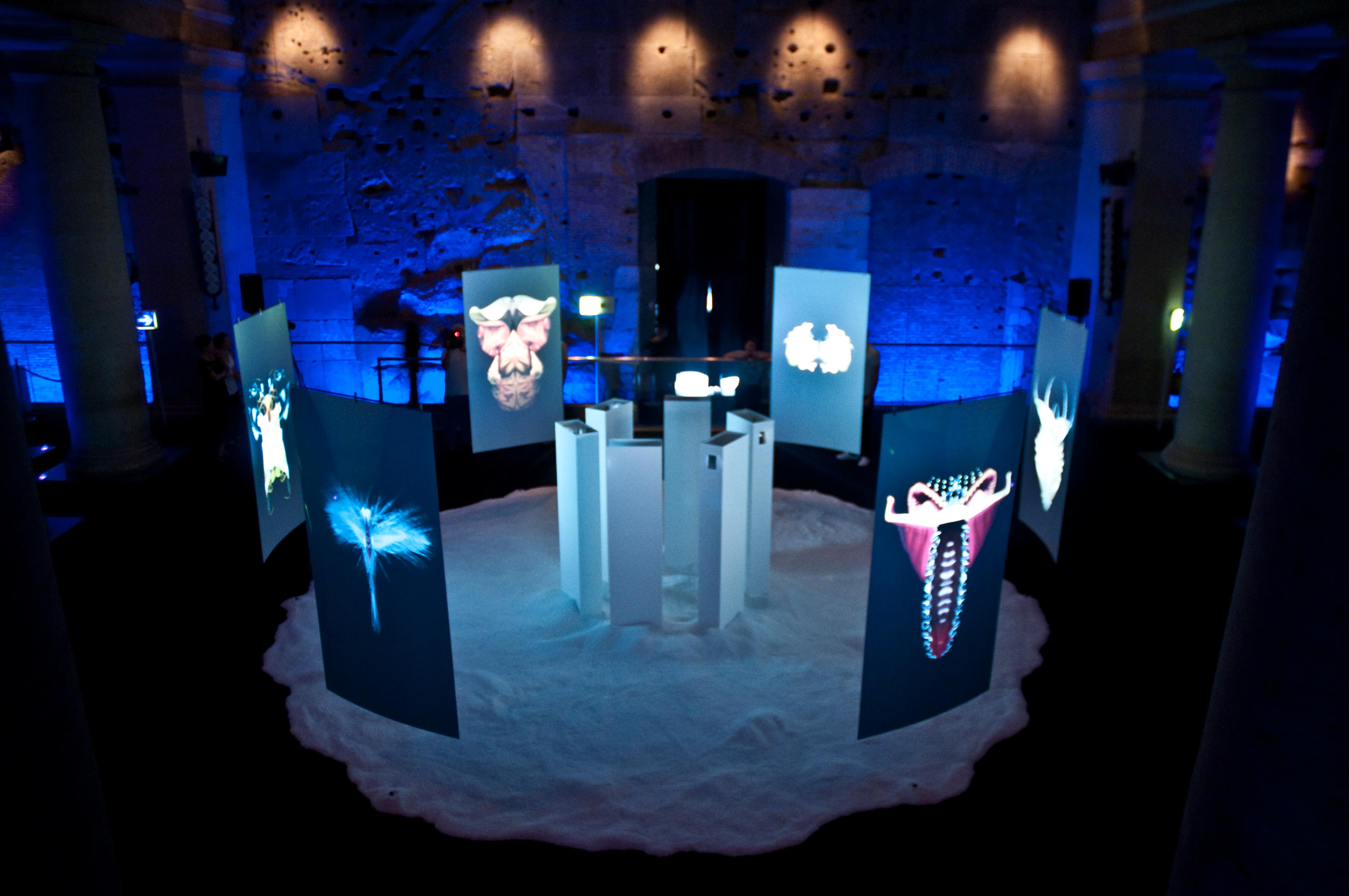 'Il Gesto Sospeso' by Maurizio Martusciello and Mattia Casalegno, Hadrian Temple, Rome, 2010